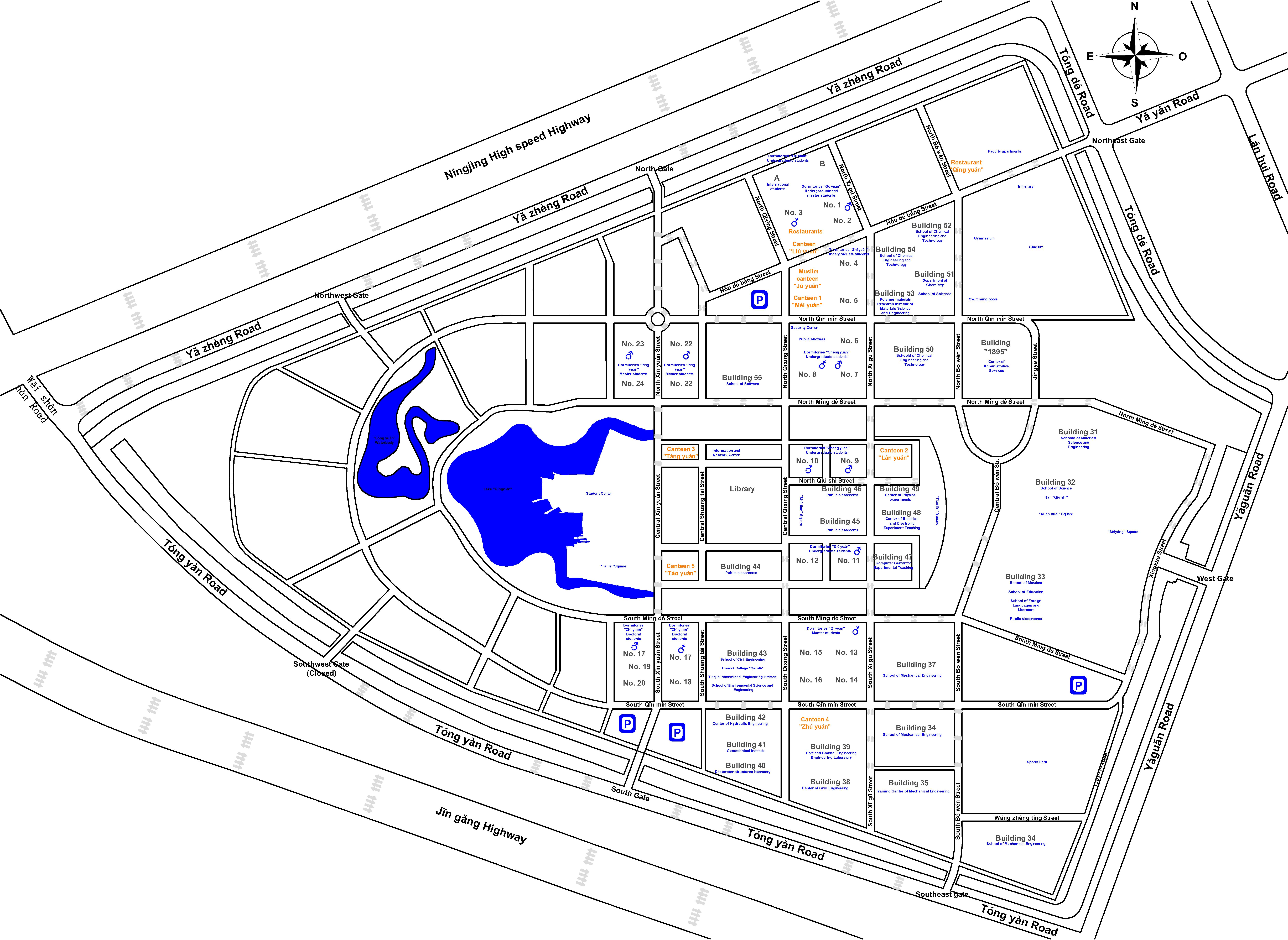 This map shows the general location of buildings and important places in the Beiyang Campus of Tianjin University.